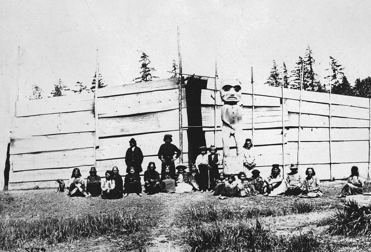 Photograph, West Coast aboriginal house and totem pole, BC, about 1885, Anonymous, Silver salts on paper - Gelatin silver process - 18 x 23 cm